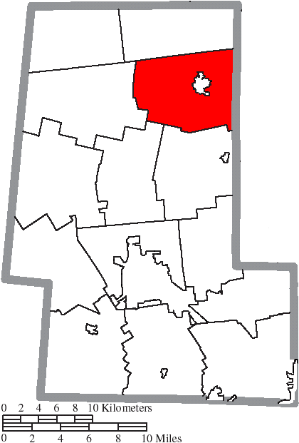 Map of the municipal and township boundaries of Union County, Ohio, United States, as of the 2000 census, with the location of Claibourne Township highlighted. Township borders are shown only in unincorporated areas in order to differentiate incorporated and unincorporated areas more clearly.